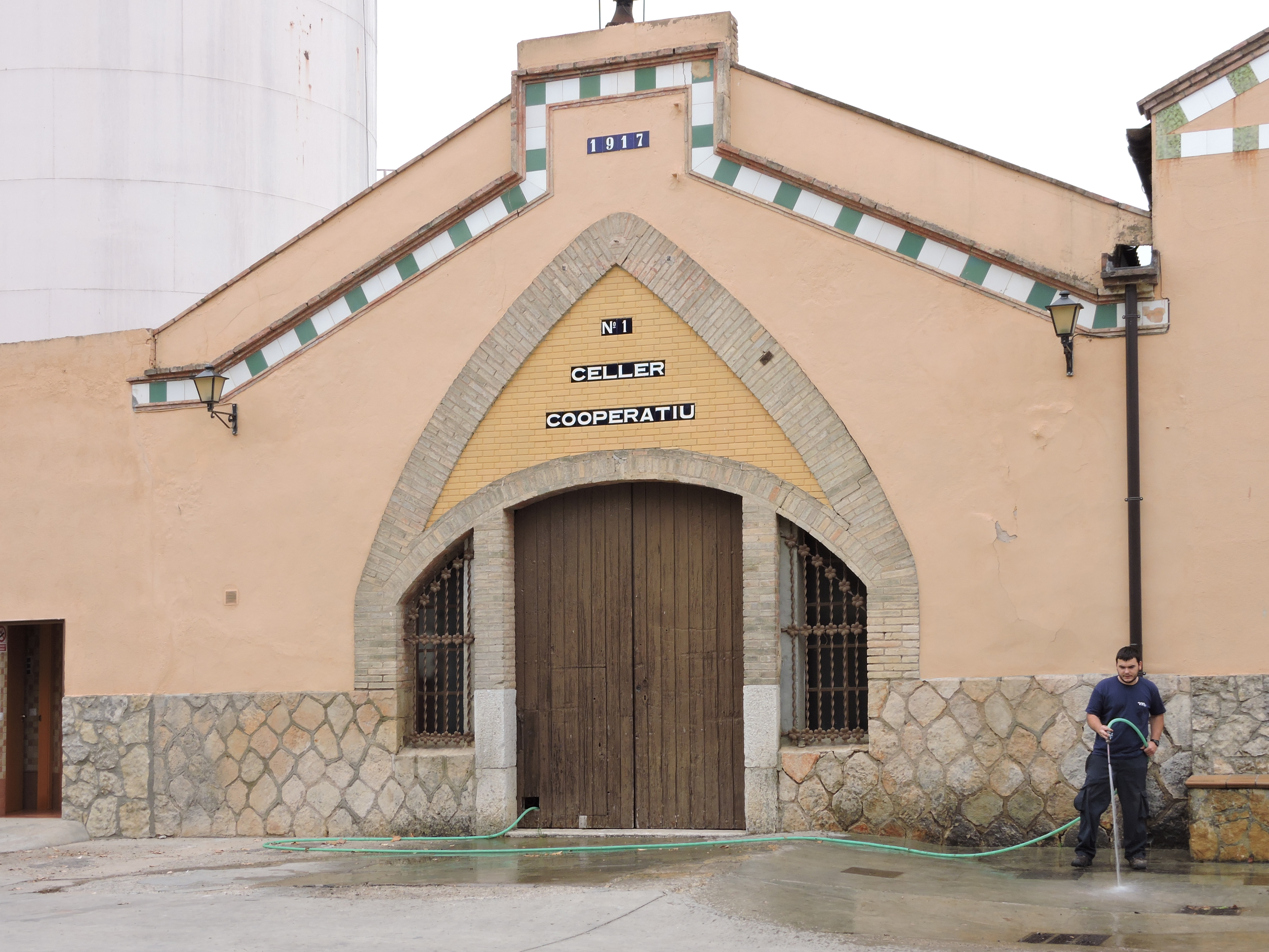 Cooperative Masroig - Wine Cellar 1